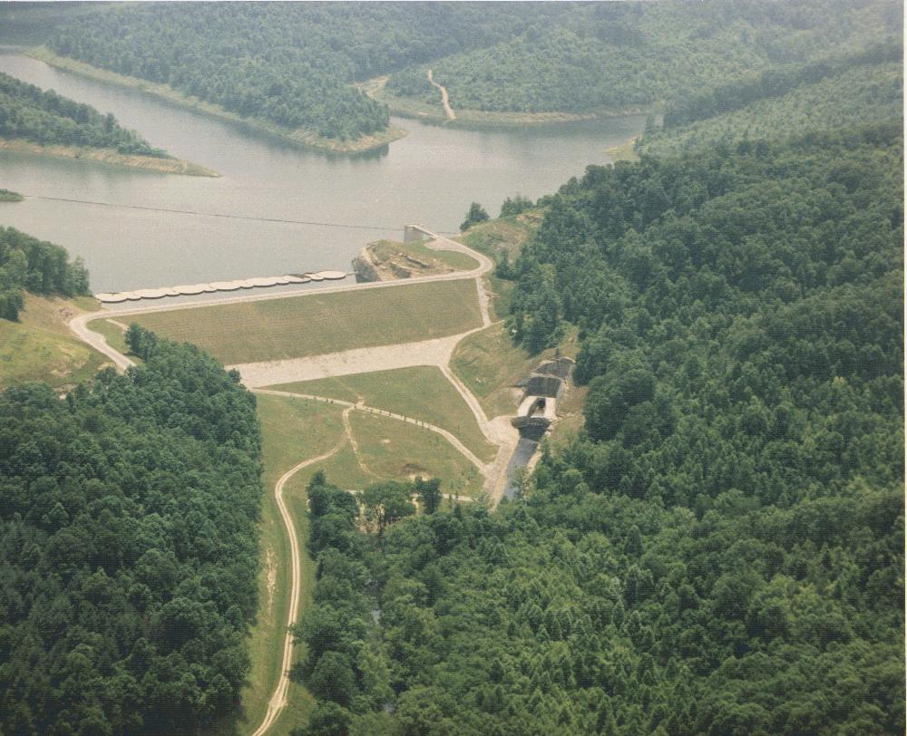 Aerial photo of Yatesville Lake & Dam, Yatesville Lake State Park, Kentucky, USA